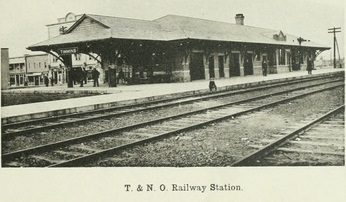 Photograph of T & N. O. Railway Station at Timmins, Ont., early 1900s.